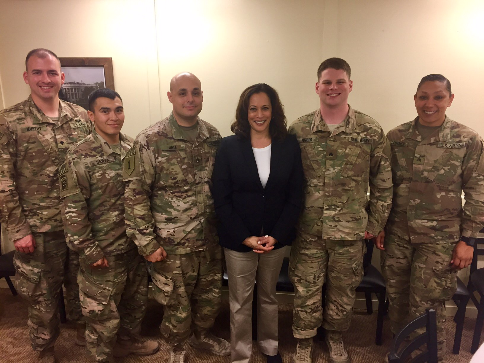 Last week I traveled to the Middle East to meet with CA servicemembers & other U.S. personnel in the region.